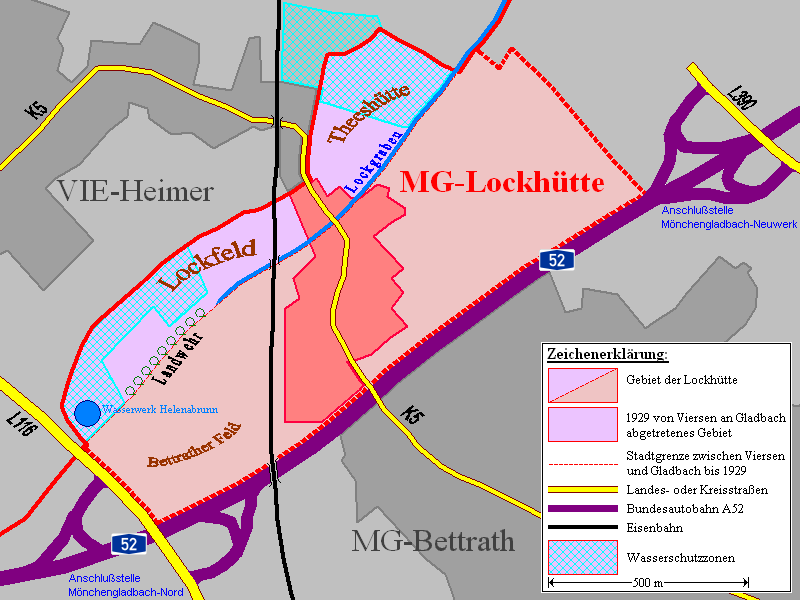 Map of Lockhütte, Mönchengladbach, Germany